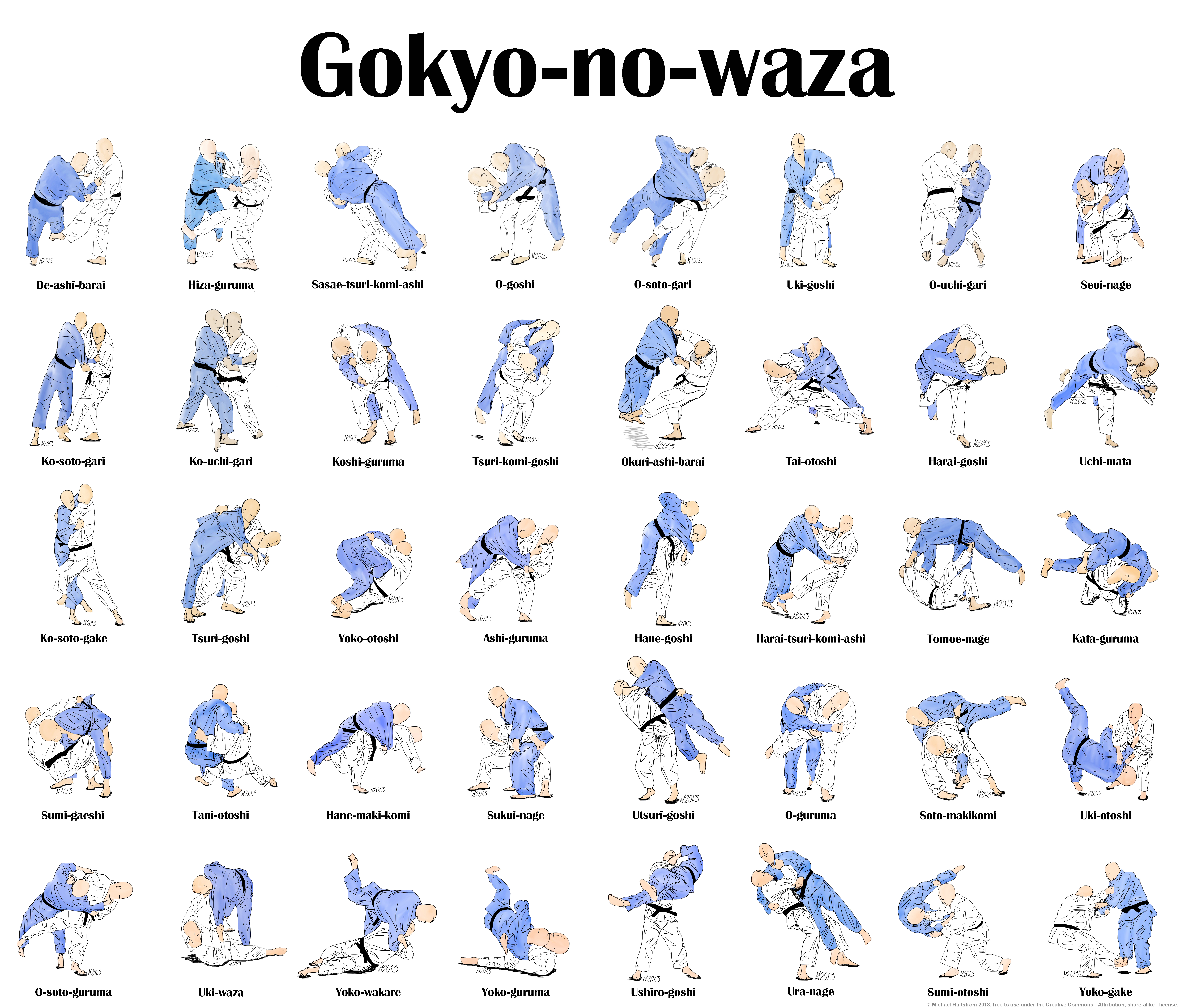 Illustrations of all the 40 throws of the 1920 Gokyo-no-waza of Kodokan Judo.